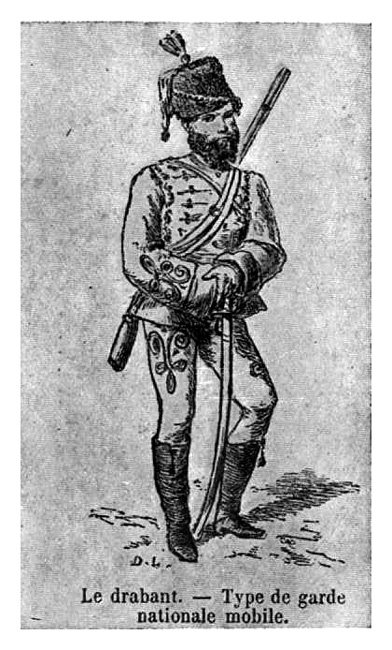 Dorobanţ, a type of national guardsman, Bucharest, 1860